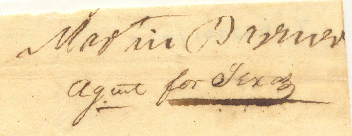 Autograph of Martin Parmer on scrip issued by Parmer in 1836 during the Texas Revolution. Parmer was authorized by the Convention at Washington to confiscate guns, ammunition, horses, saddles, etc. on behalf of the Republic of Texas for the use of the Texas Army under the command of General Sam Houston. Parmer signed the scrip in his official capacity as "Agent for Texas."